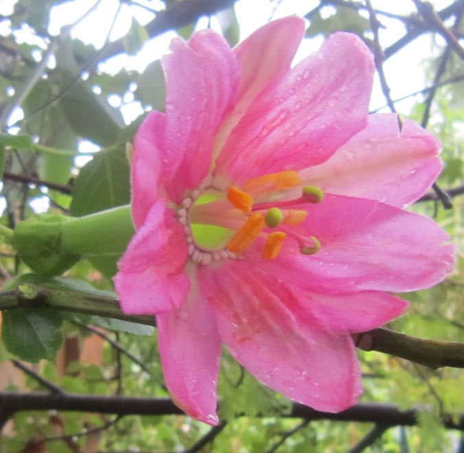 Passiflora mixta flower